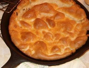 Contrast this pudding with those cooked in bakeware of tin and glass.